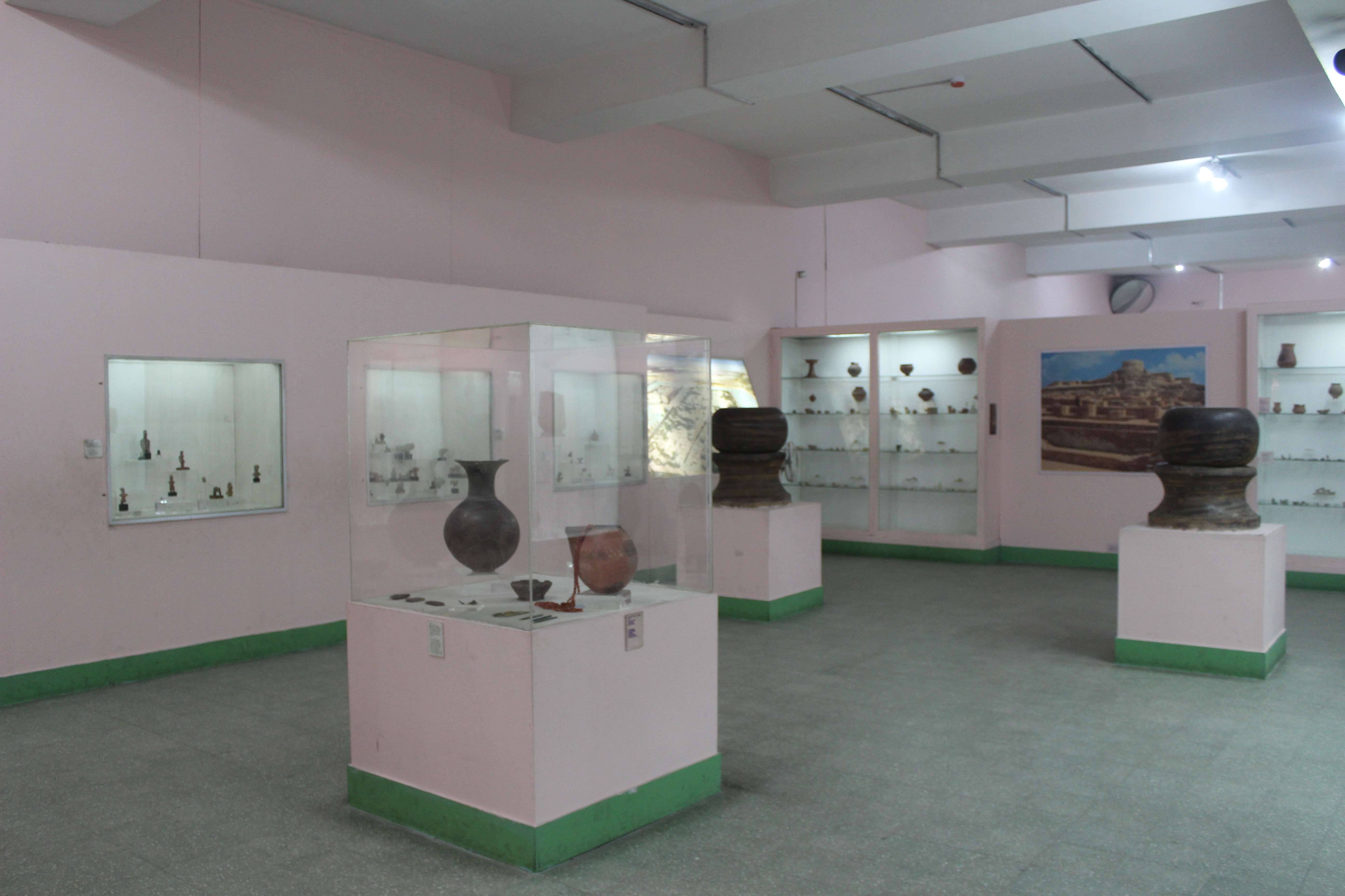 This is a view of the Harrapan Gallery showing potteries and two pillar bases in the National Museum, New Delhi